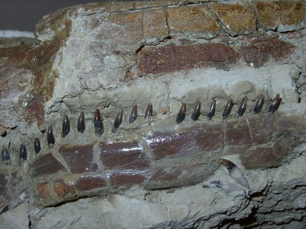 Etruridelphis giulii teeth